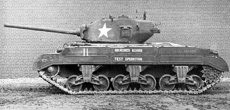 Production T23 with cast turret for 76mm M1A1 gun, electrical transmission, and vertical volute spring suspension. The T23 turret was designed to be interchangeable with the turret ring of the M4 Sherman.